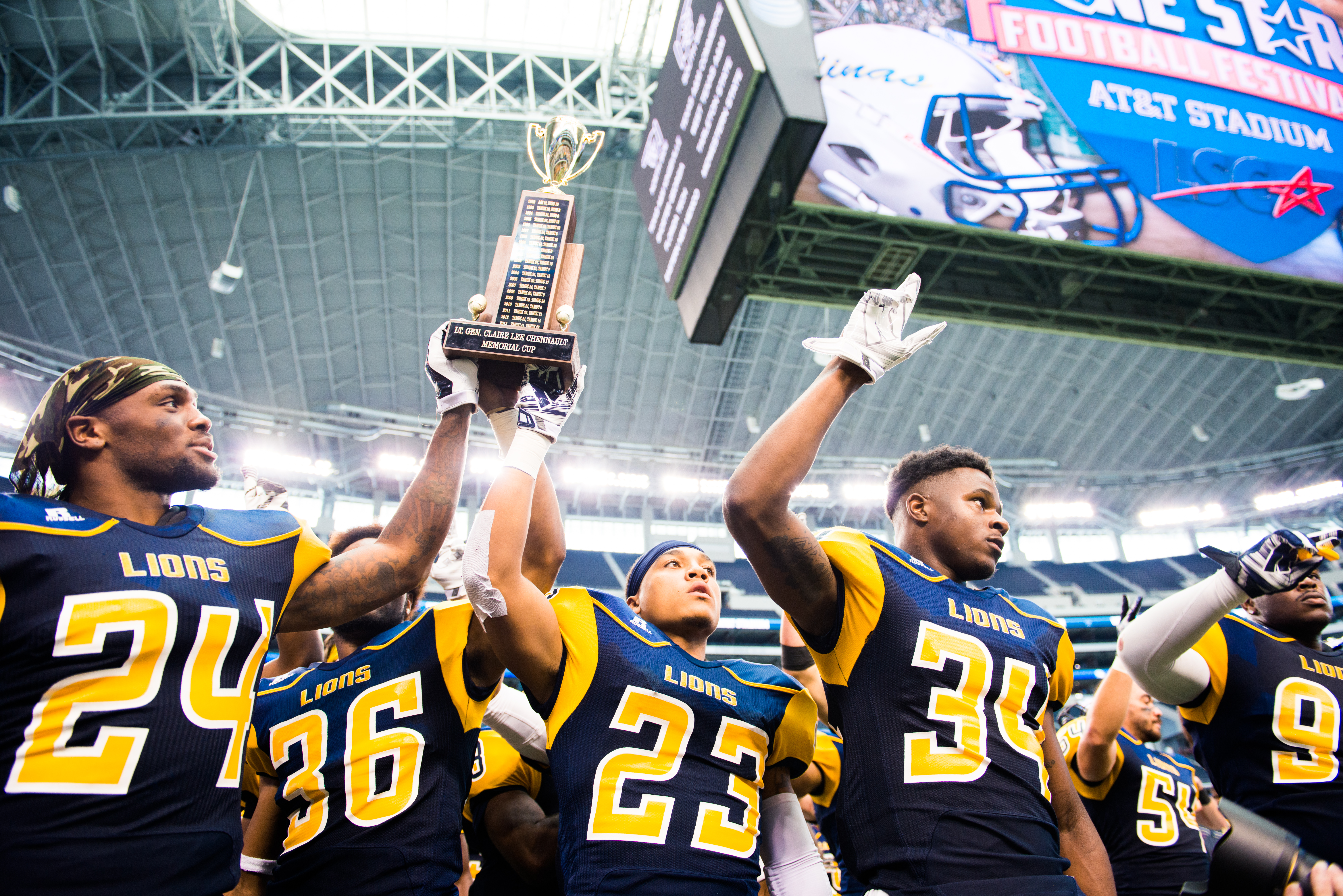 14453-LSC Football Festival-6511.jpg Scenes from the Texas A&M–Kingsville Javelinas vs. Texas A&M–Commerce Lions football game at AT&T Stadium in Arlington on September 20, 2014.